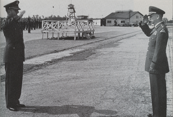 Lt. Col. Corso (right), Inspector General of the 7th Army, is seen visiting an army helicopter base in Germany.